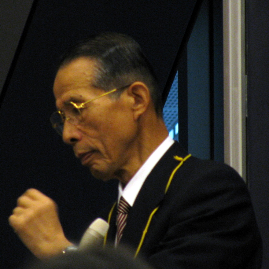 Makoto Nagao, Librarian of the National Diet Library, at Wikimedia Conference Japan 2009.